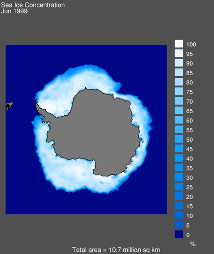 Sea Ice Concentration of Antarctic in June 1999